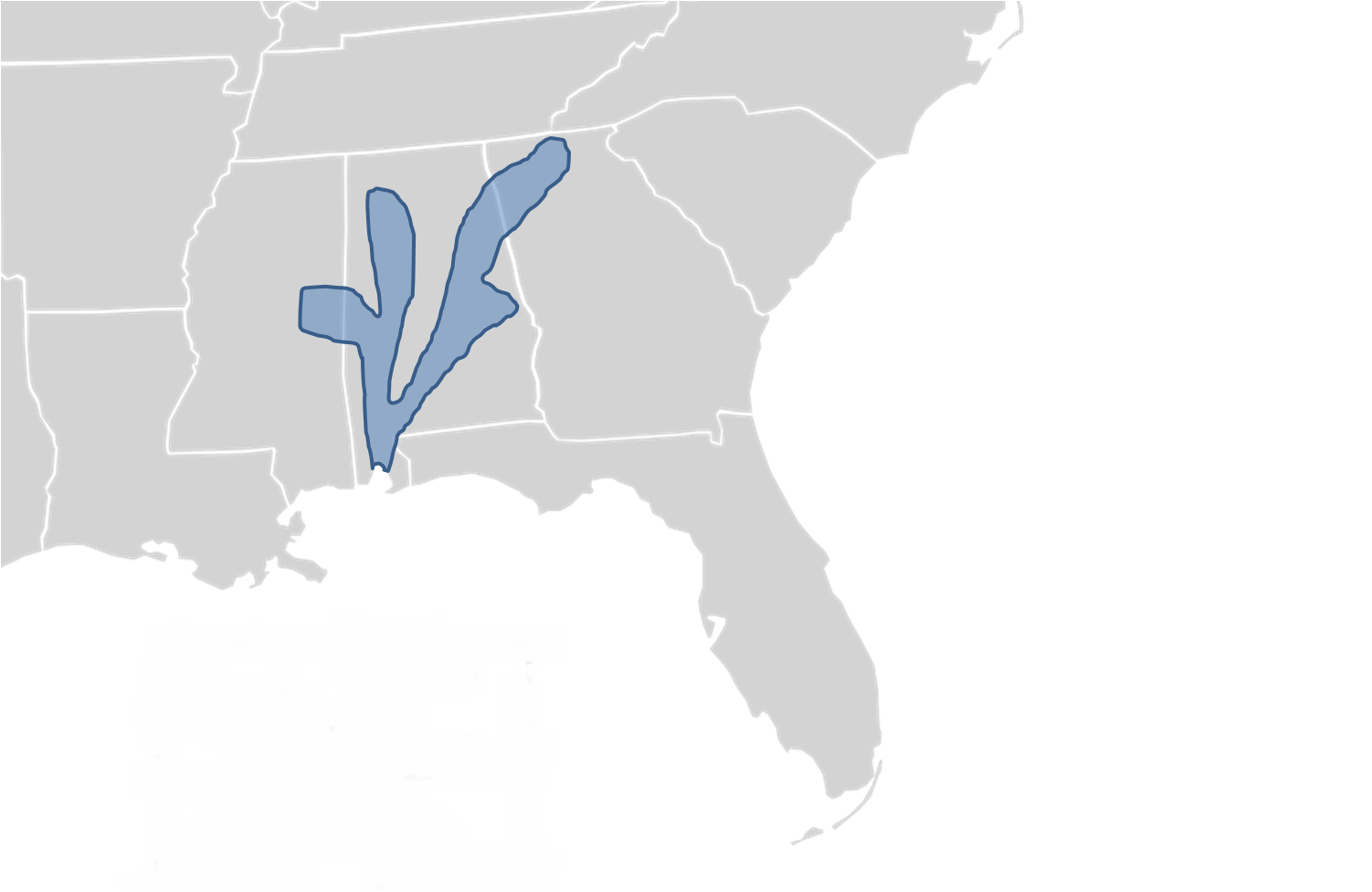 Range map of the Alabama Map Turtle (Graptemys pulchra), based on C.H. Ernst and J.E. Lovich. (2009) "Turtles of the United States and Canada. 2nd Ed." Baltimore: Johns Hopkins University Press, pg 337